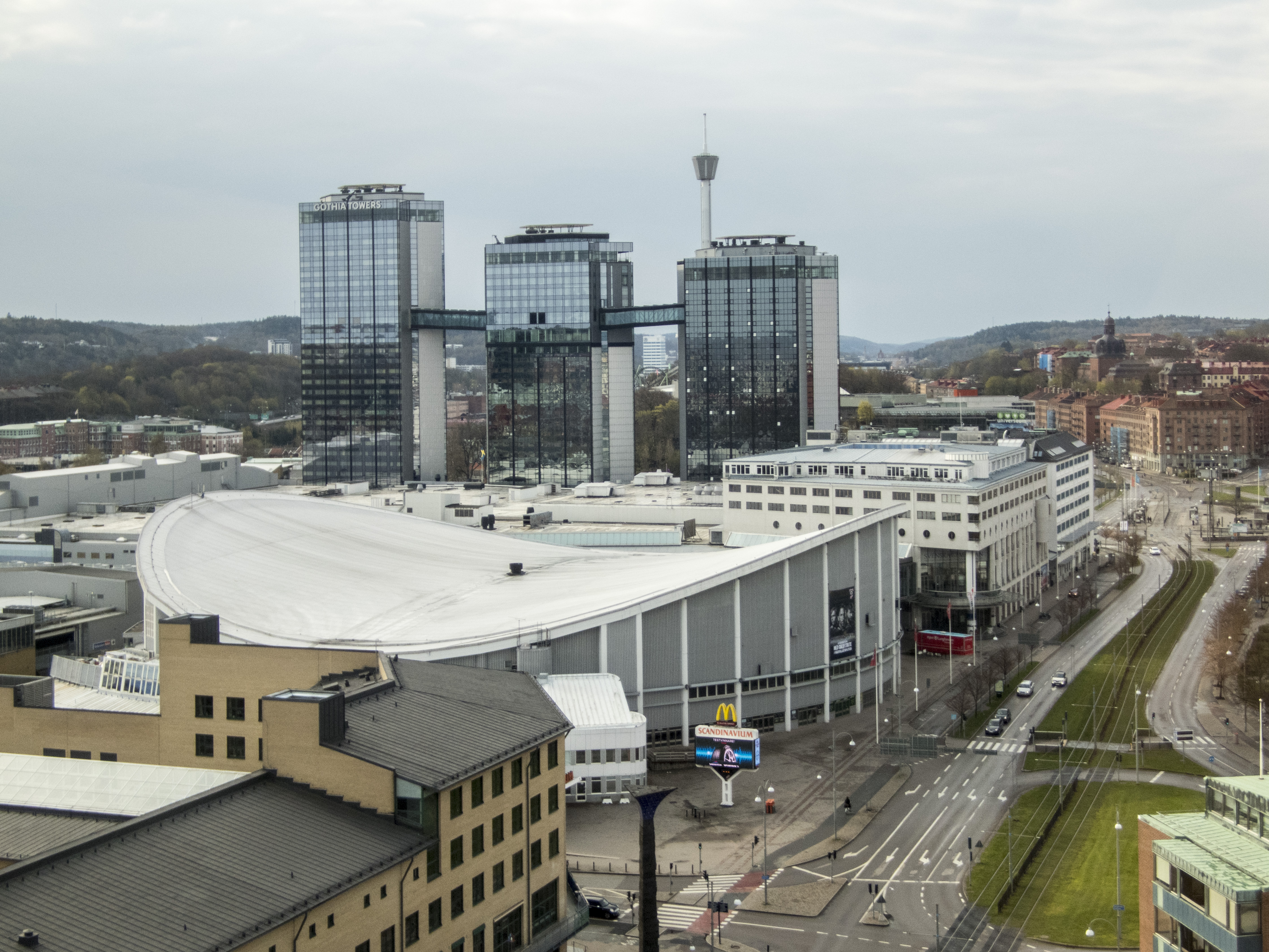 Gothia Towers, Mässan och Scandinavium